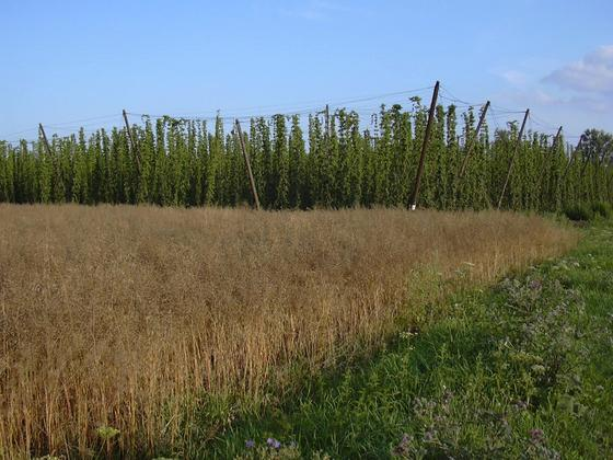 Hop garden (at the back), Czech Republic.